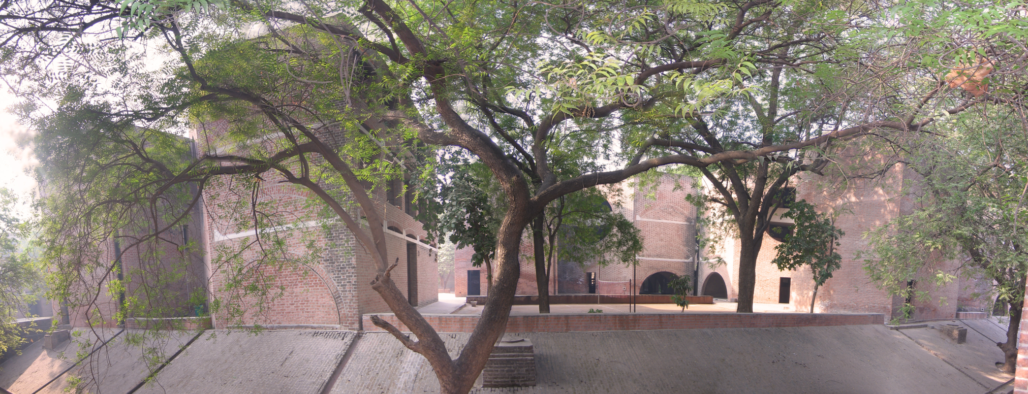 Atmospheric image from the Indian Institute of Management, Ahmedabad, Gujarat, India.